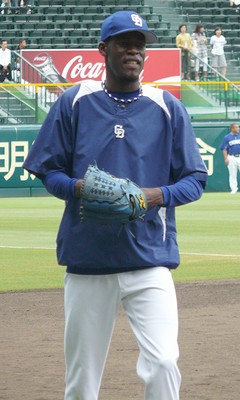 Maximo Nelson